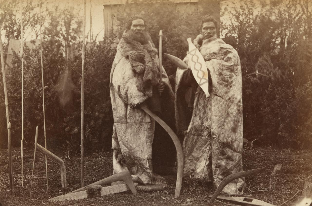 Victorian Aboriginals and war implements (c. 1883) by Fred Kruger